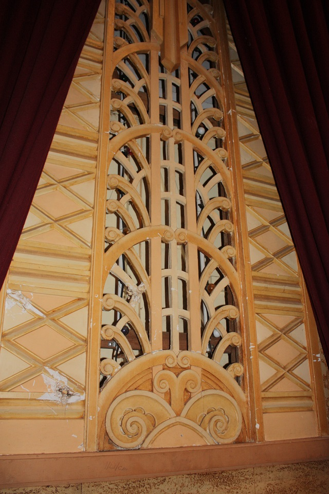 Roxy Theatre and Peters Greek Cafe Complex: detail